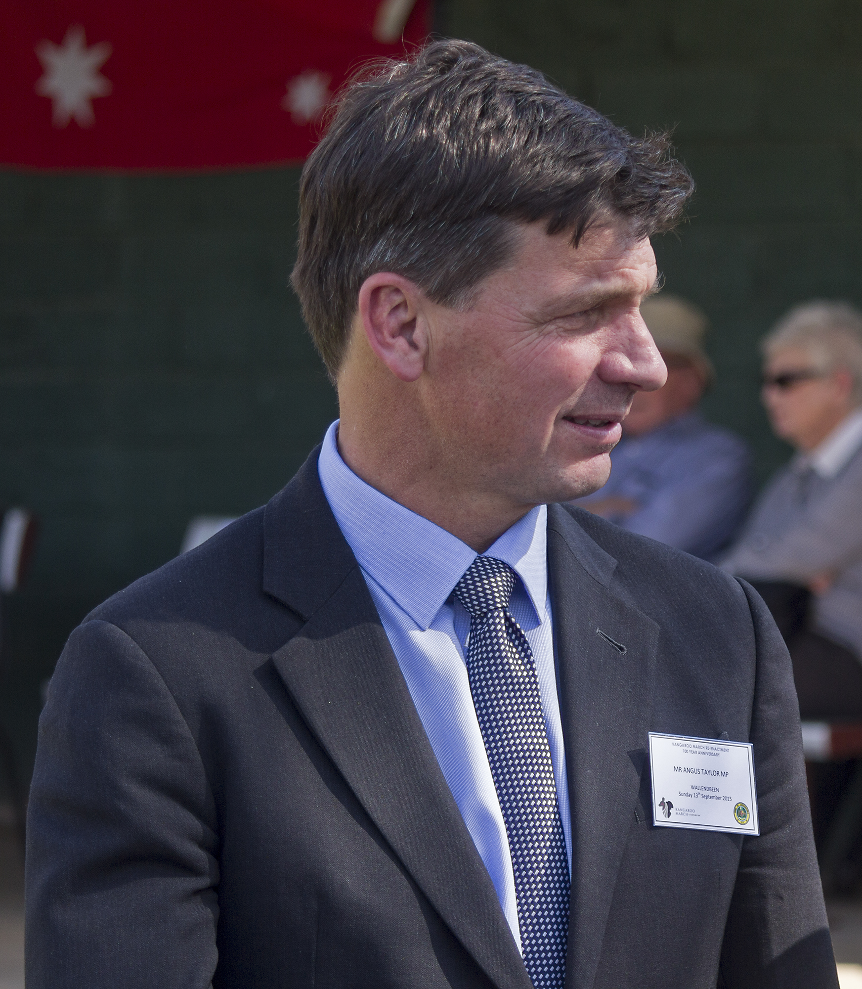 Angus Taylor at the Kangaroo March re-enactment at Barry Grace Oval in Wallendbeen.